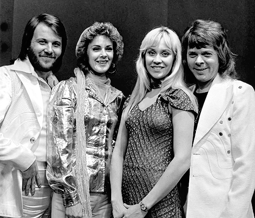 ABBA in AVRO's TopPop (Dutch television show) in 1974